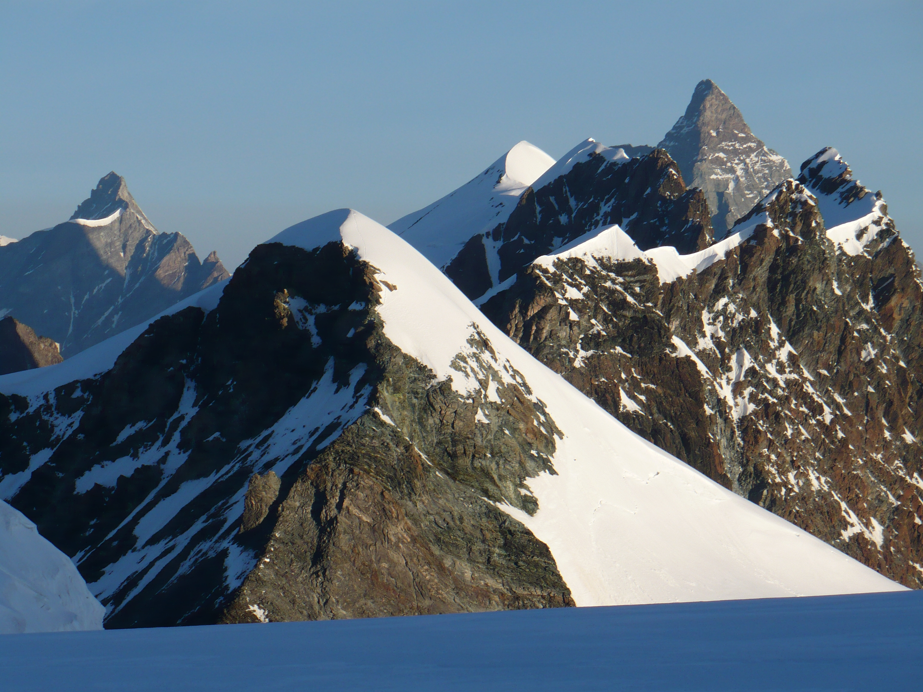 Dent D'Herens, Pollux and Peaks of Breithorn, overtowered by the Matterhorn - Pennine Alps